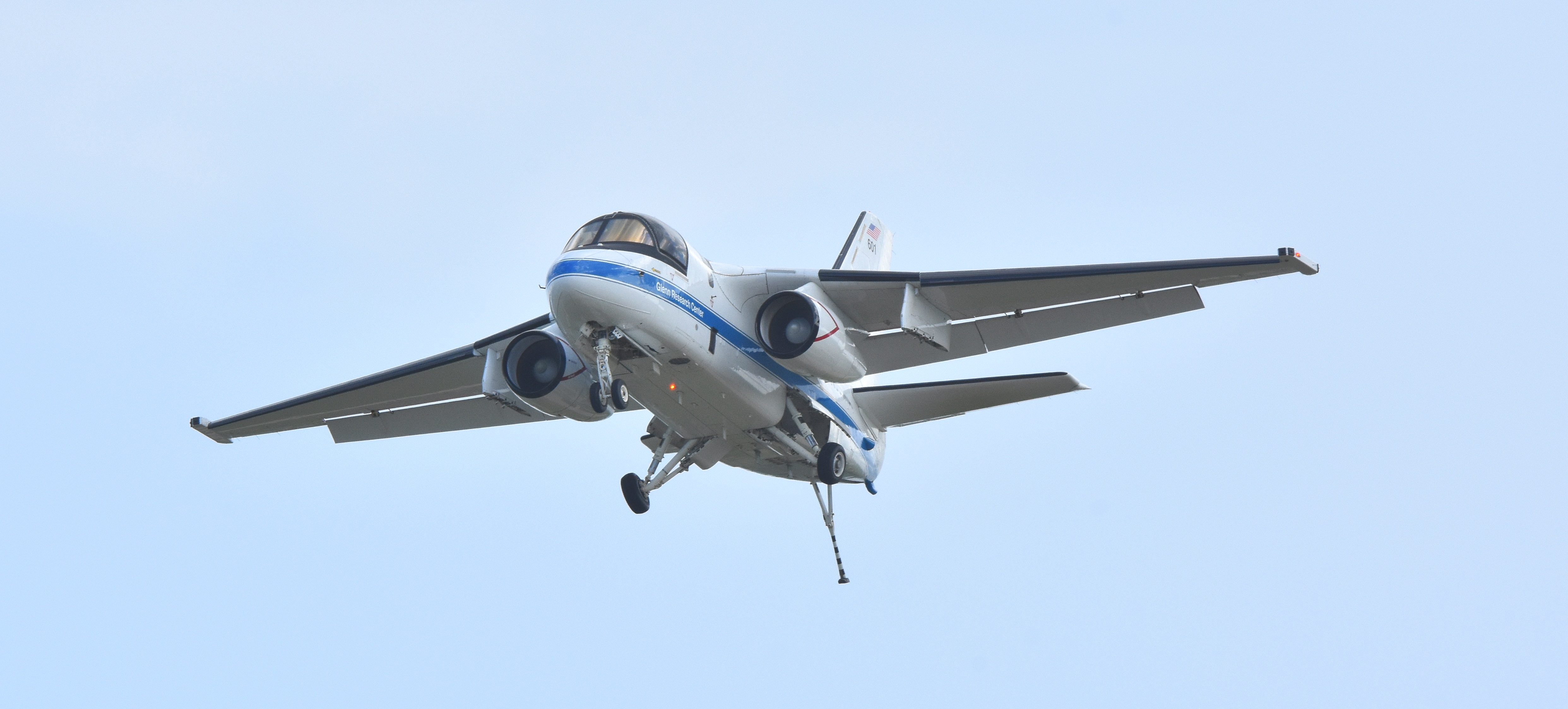 Lockheed S-3B 'N601NA' NASA Glenn Research Center @ EAA Oshkosh 2018